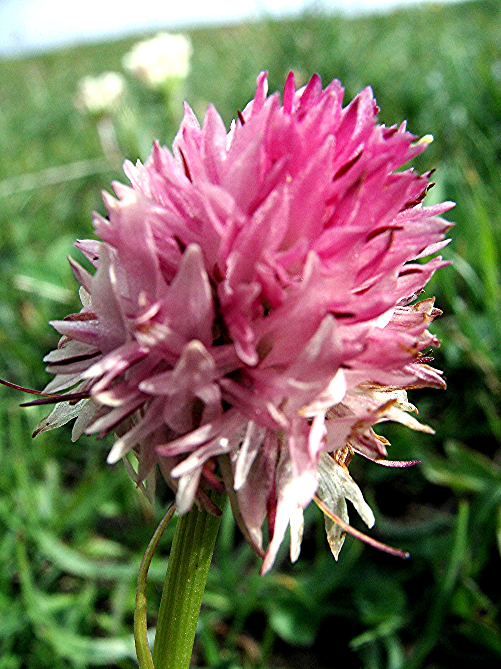 Gymnadenia corneliana, Devoluy, France. Flower.